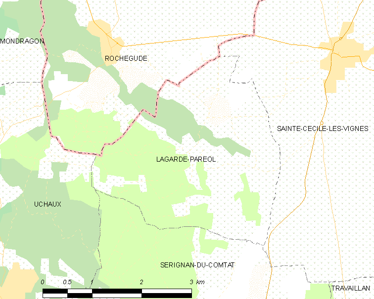 Map of French municipality Lagarde-Paréol